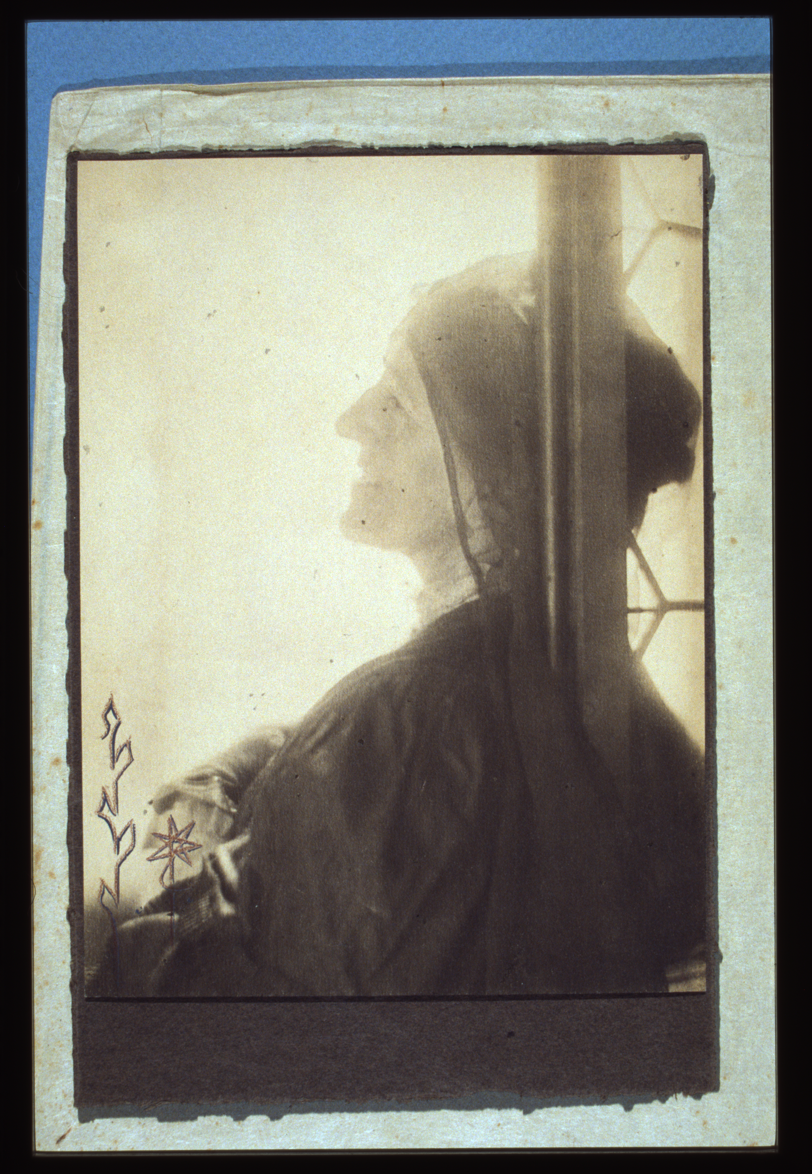 Gertrude Käsebier, head-and-shoulders profile portrait, facing left